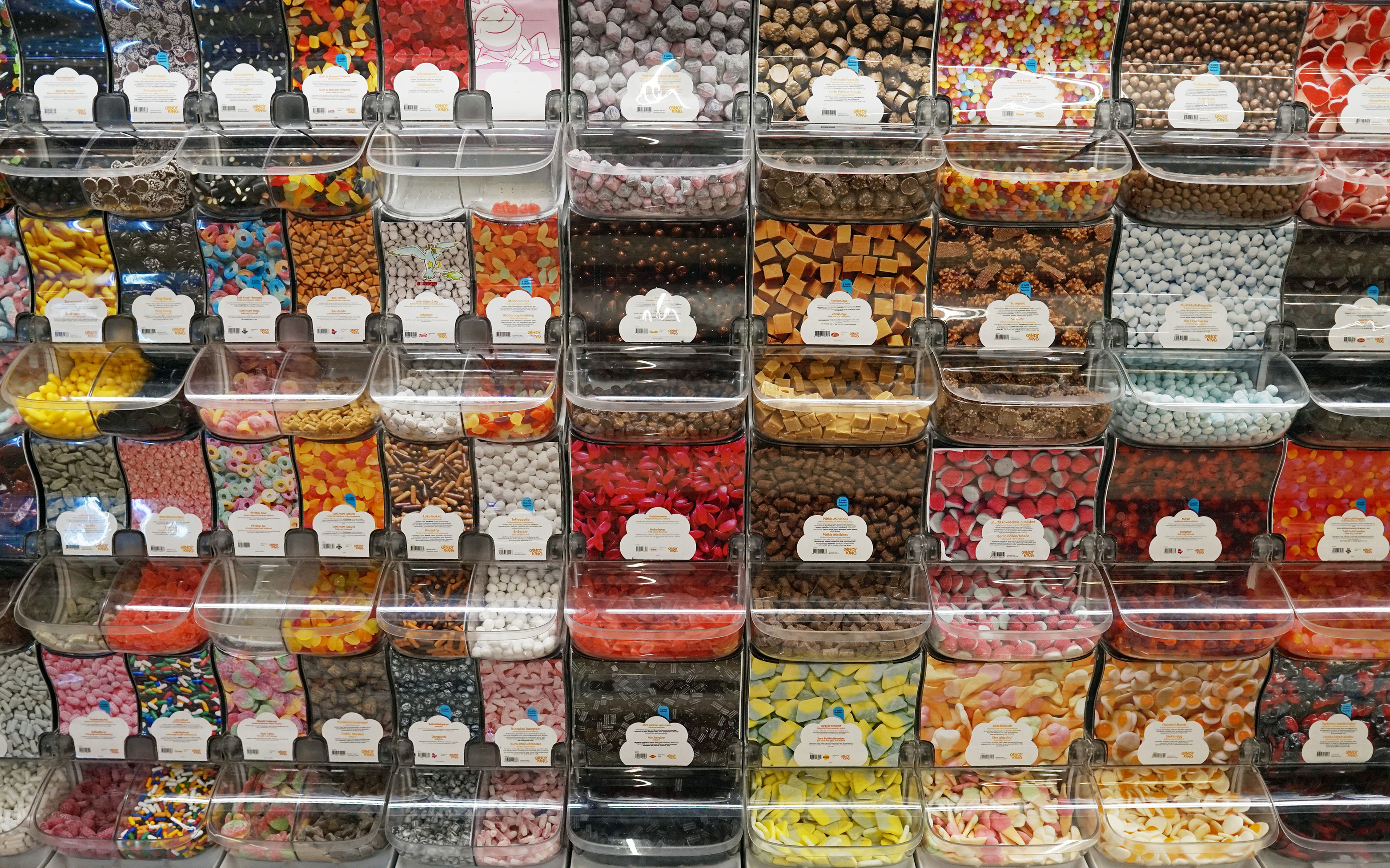 Candy King loose candy in Citymarket Varkaus, Finland.